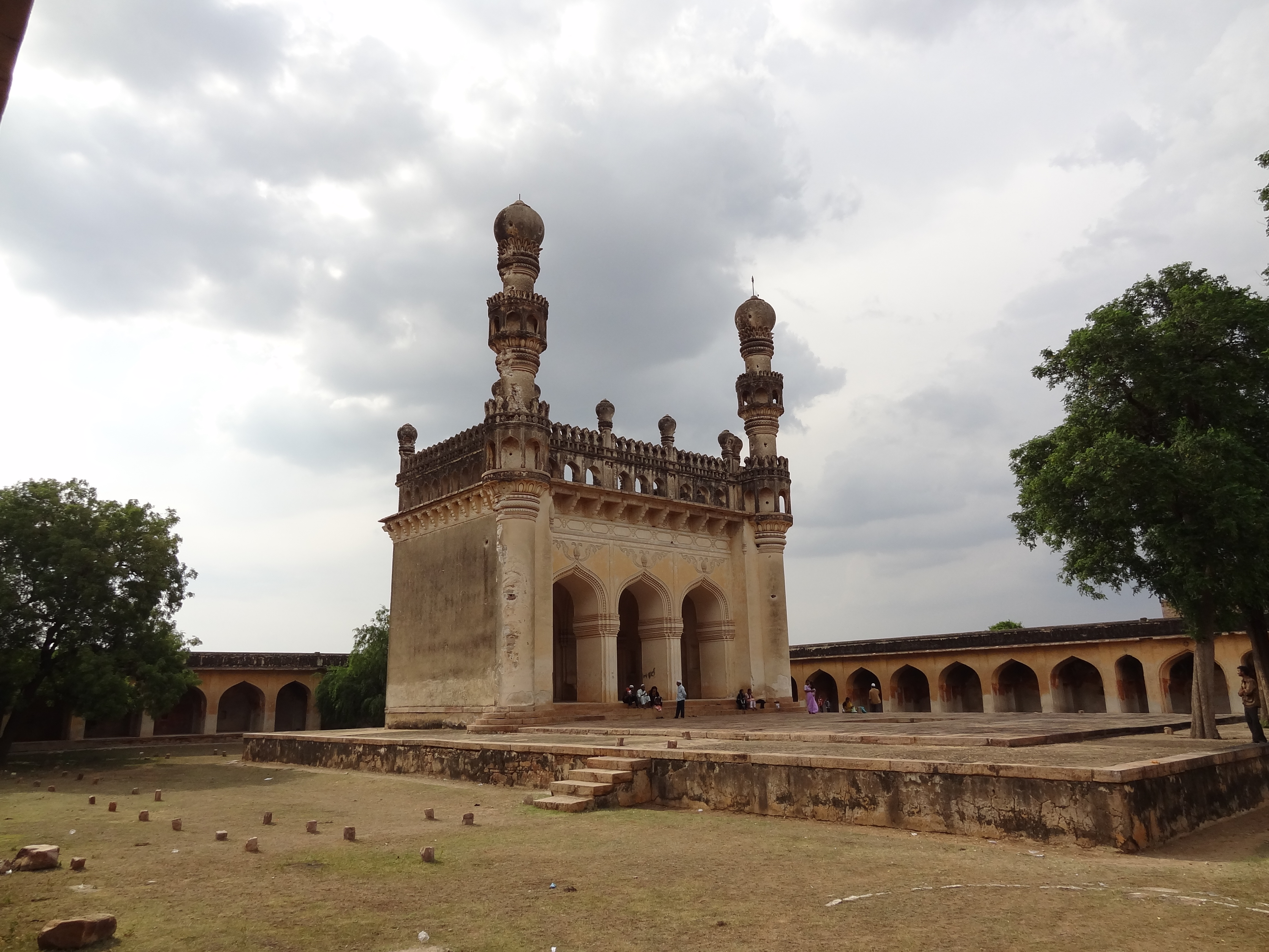 Fort with enclosed ancient buildings, Madhavaperumal temple